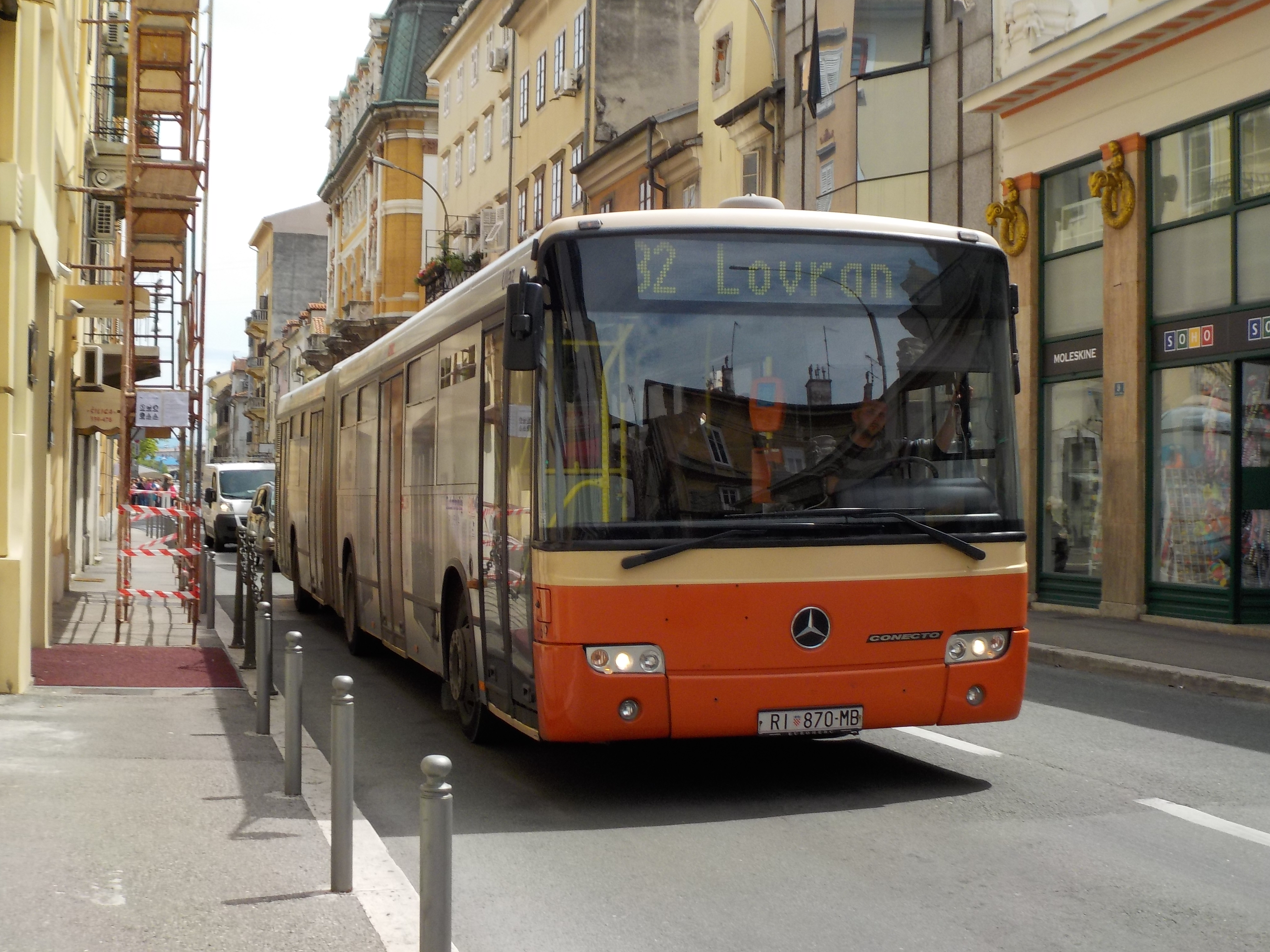 Mercedes Benz Conecto bus in Rijeka